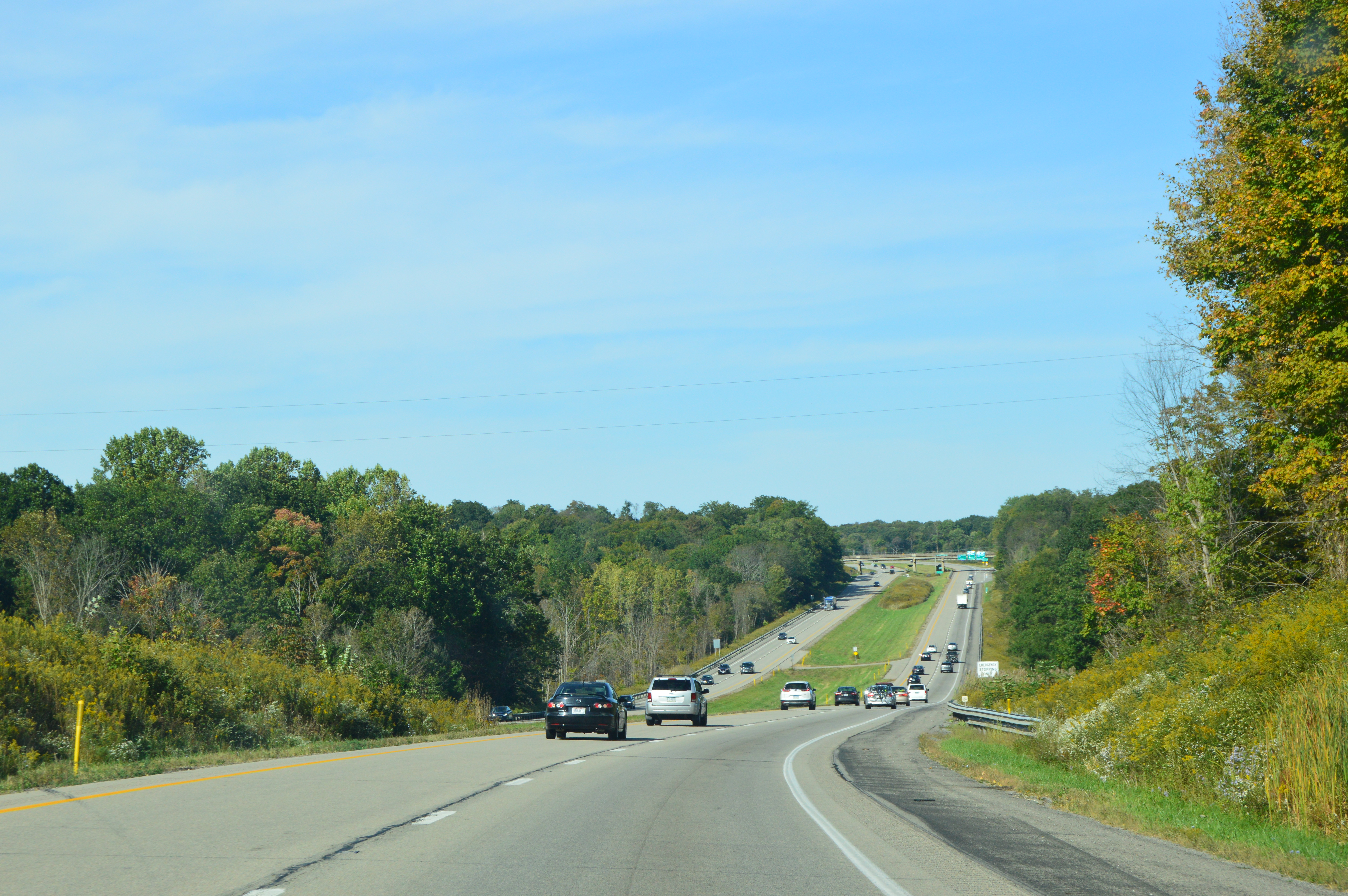 Northbound on Interstate 79 a short distance south of the Interstate 80 interchange in Findley Township, Mercer County, Pennsylvania, United States.